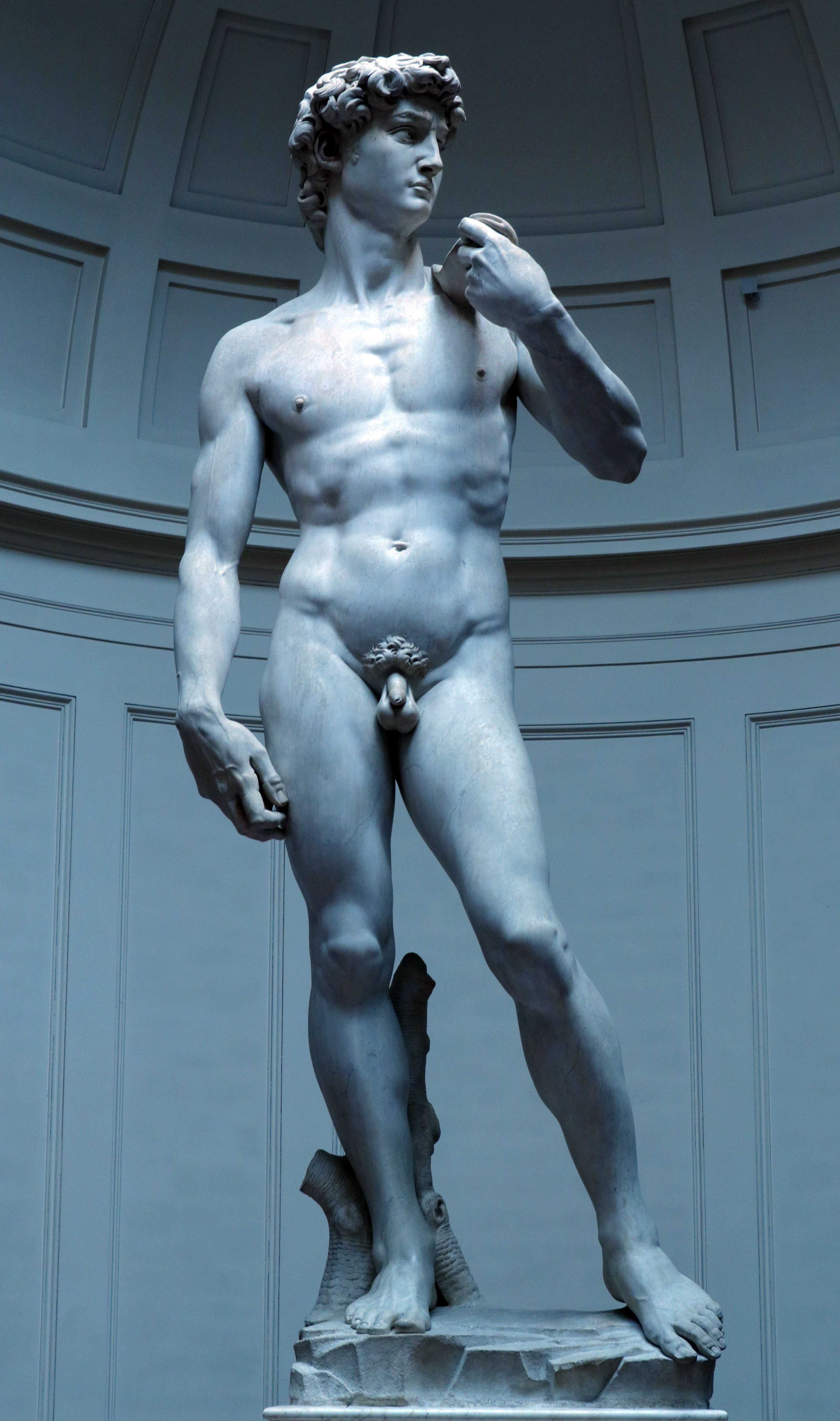 David by Michelangelo (Academia Gallery)